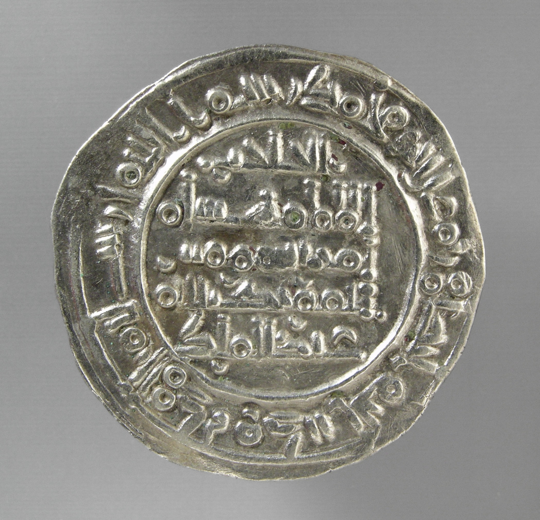 Umayyads of al-Andalus, 393 A.H.; 1002 Tools and Equipment; coins Silver The Madina Collection of Islamic Art, gift of Camilla Chandler Frost (M.2002.1.437) Islamic Art